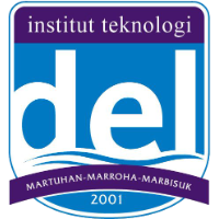 Del Institute of Technology Logo